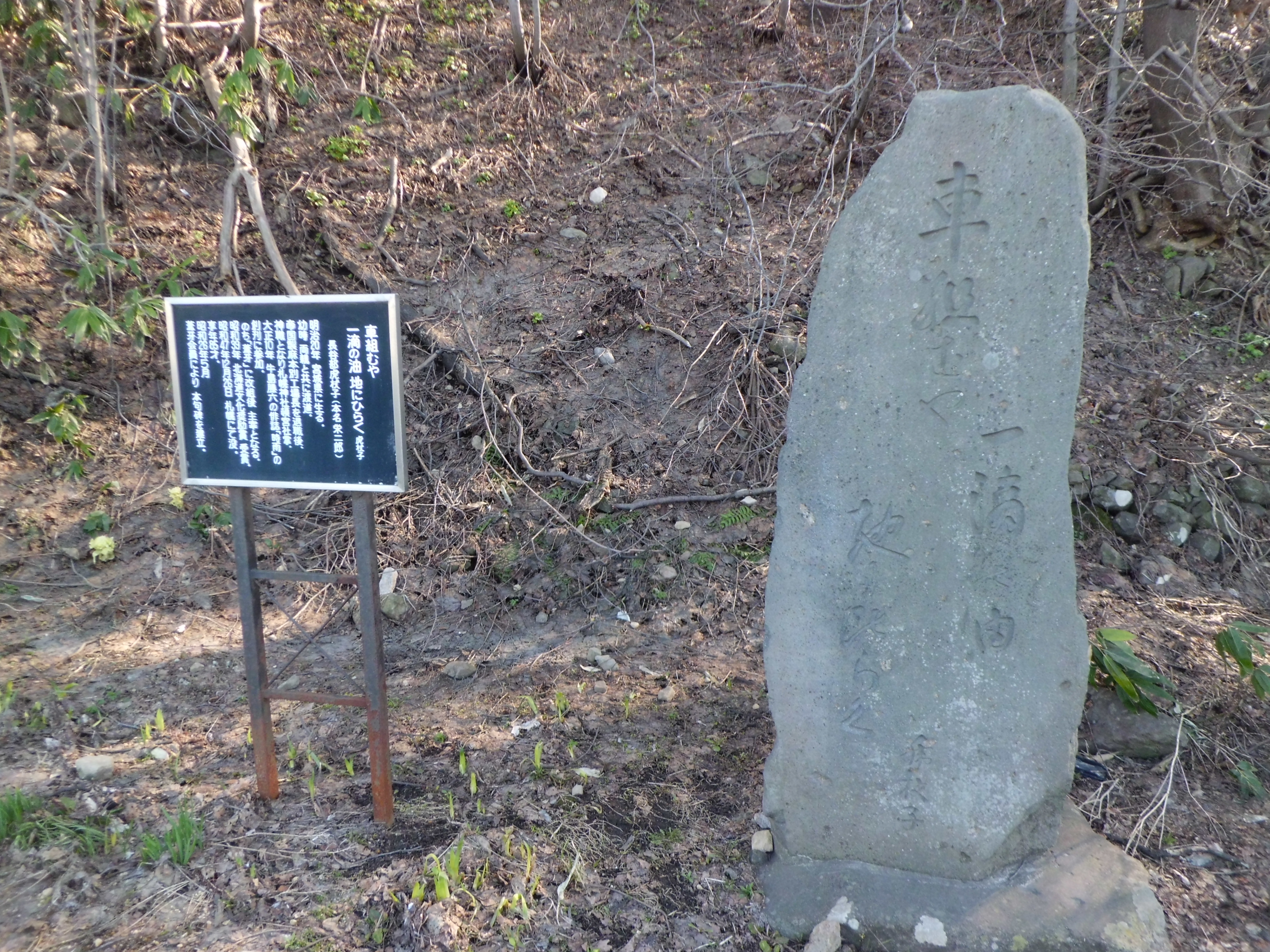 Monument to Kojoshi Hasebe's haiku since May 1951.